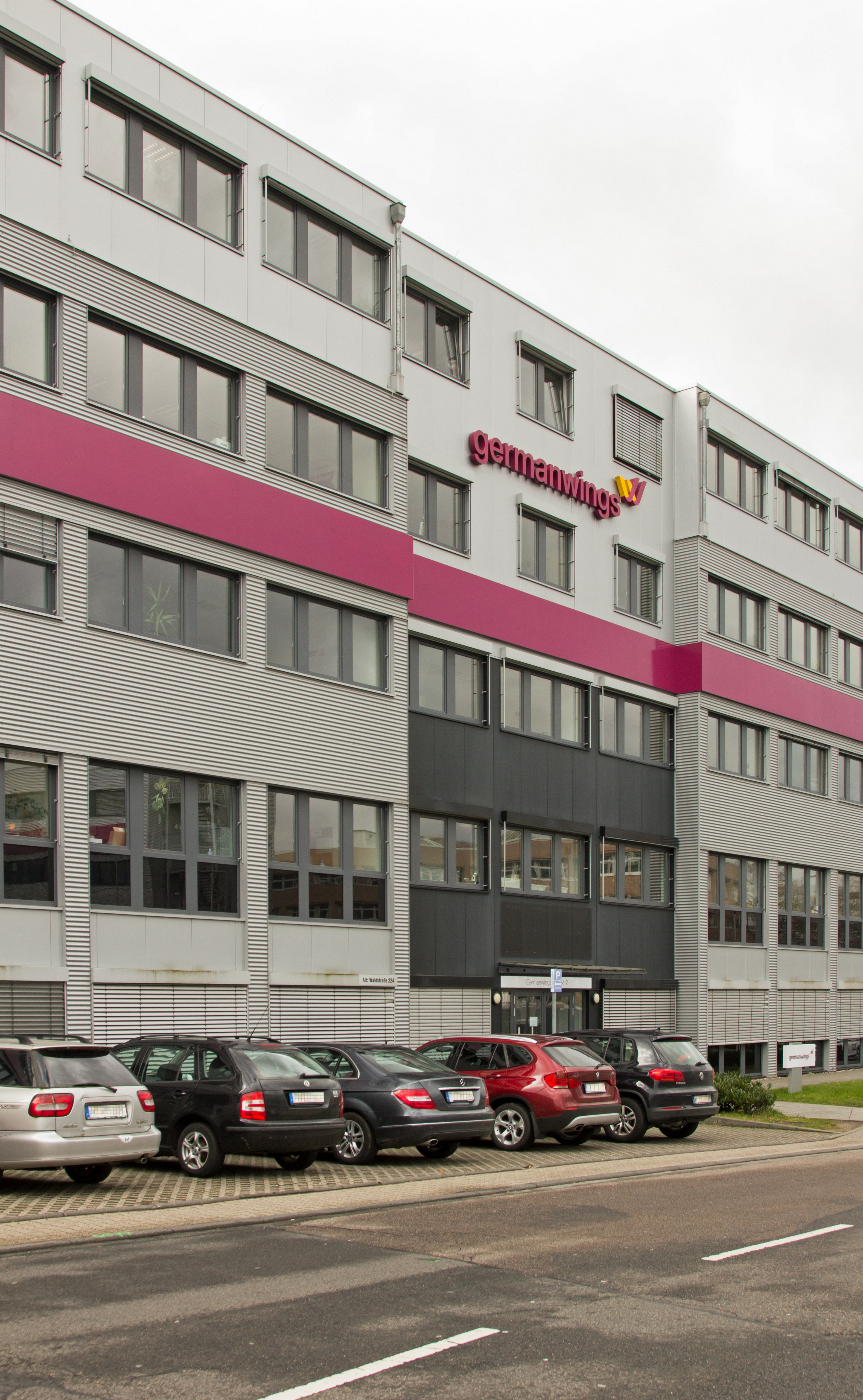 Germanwings head office - Germanwings-Str. 2, Porz, Cologne